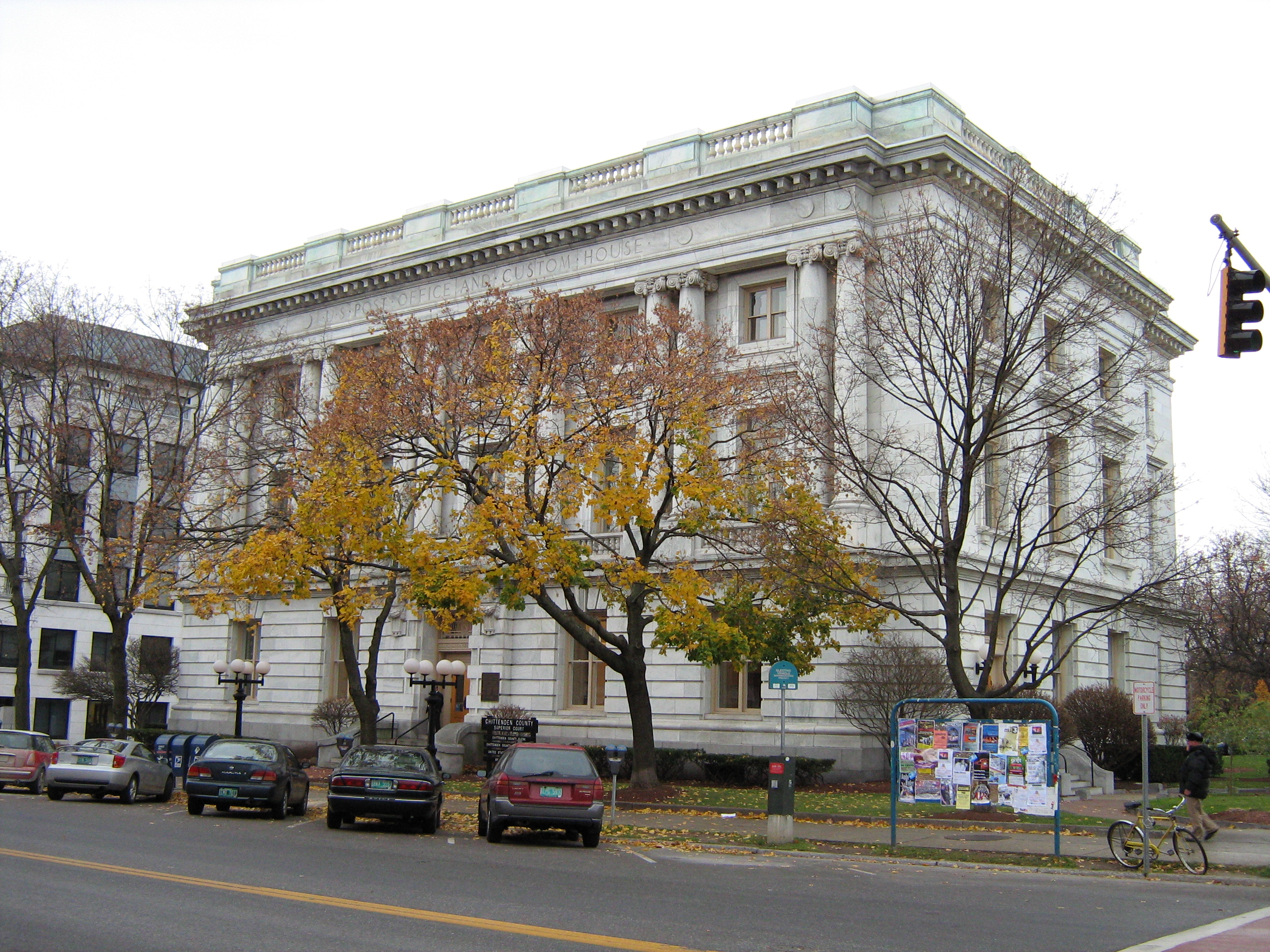 Former U.S. Post Office and Customhouse, now Chittenden County Courthouse, Burlington, Vermont